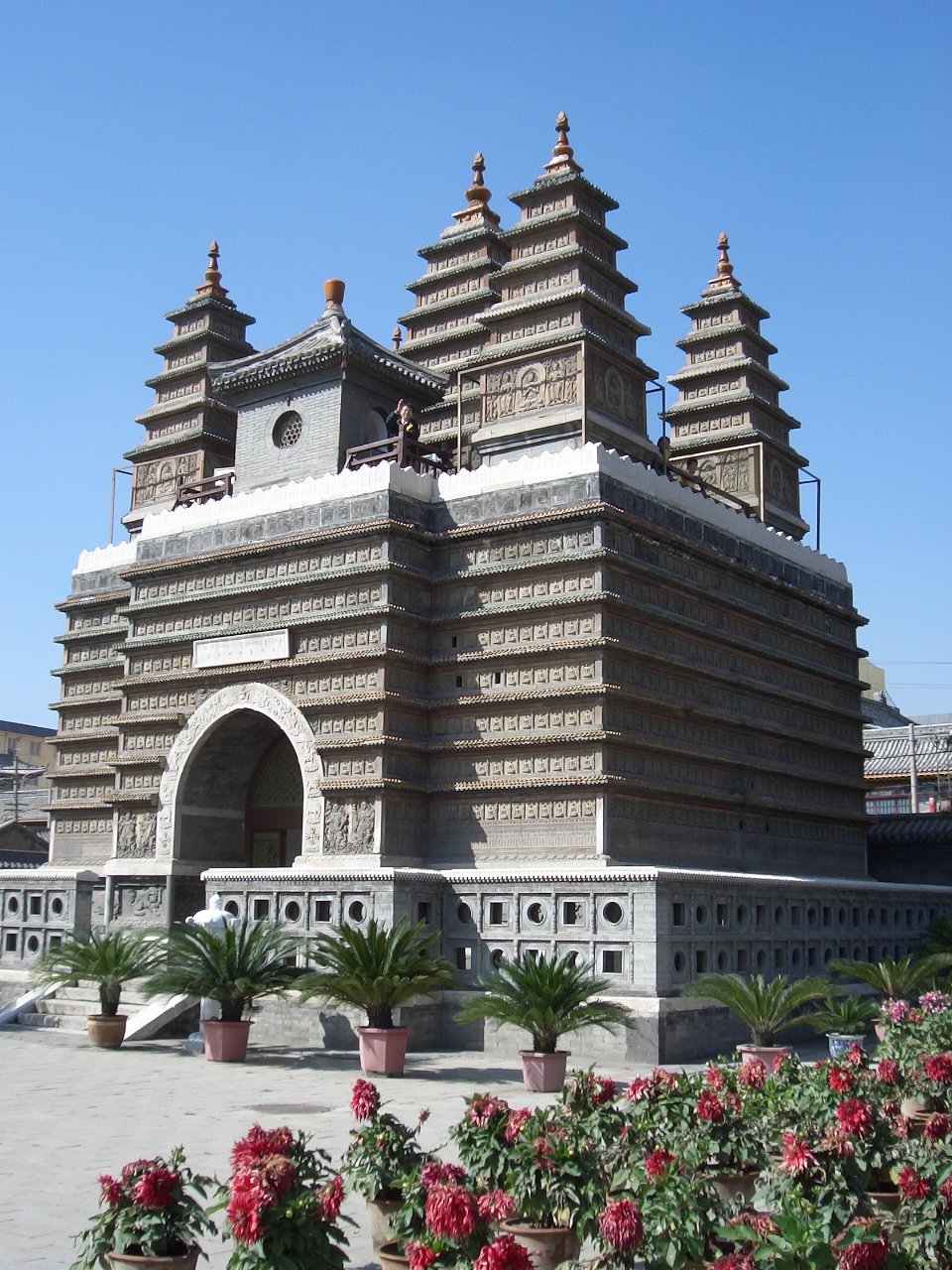 The Five Pagoda Temple in Hohhot, Inner Mongolia, China is one of the region's few remaining Buddhist temples. It was built in 1732.